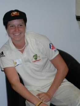 rene farrell in the dressing rooms after her first southern stars test in england 2009